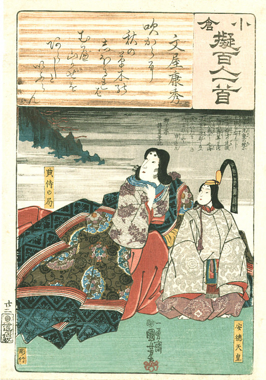 Young Emperor - “Ogura Nazorae Hyakunin Issu” (Ogura Imitation of One Hundred Poems by One Hundred Poets) - No.22, by Kuniyoshi Utagawa (1797-1861). Woodblock print depicting Emperor Antoku, who 8 years old, perished along with his Heike clan relatives at the Battle of Dannoura Bay. Poem in lower cartouche by Fun'ya no Yasuhide: "It is by its breath that autumn's leaves of trees and grass are wasted and driven. So they call this mountain wind the wild one, the destroyer."